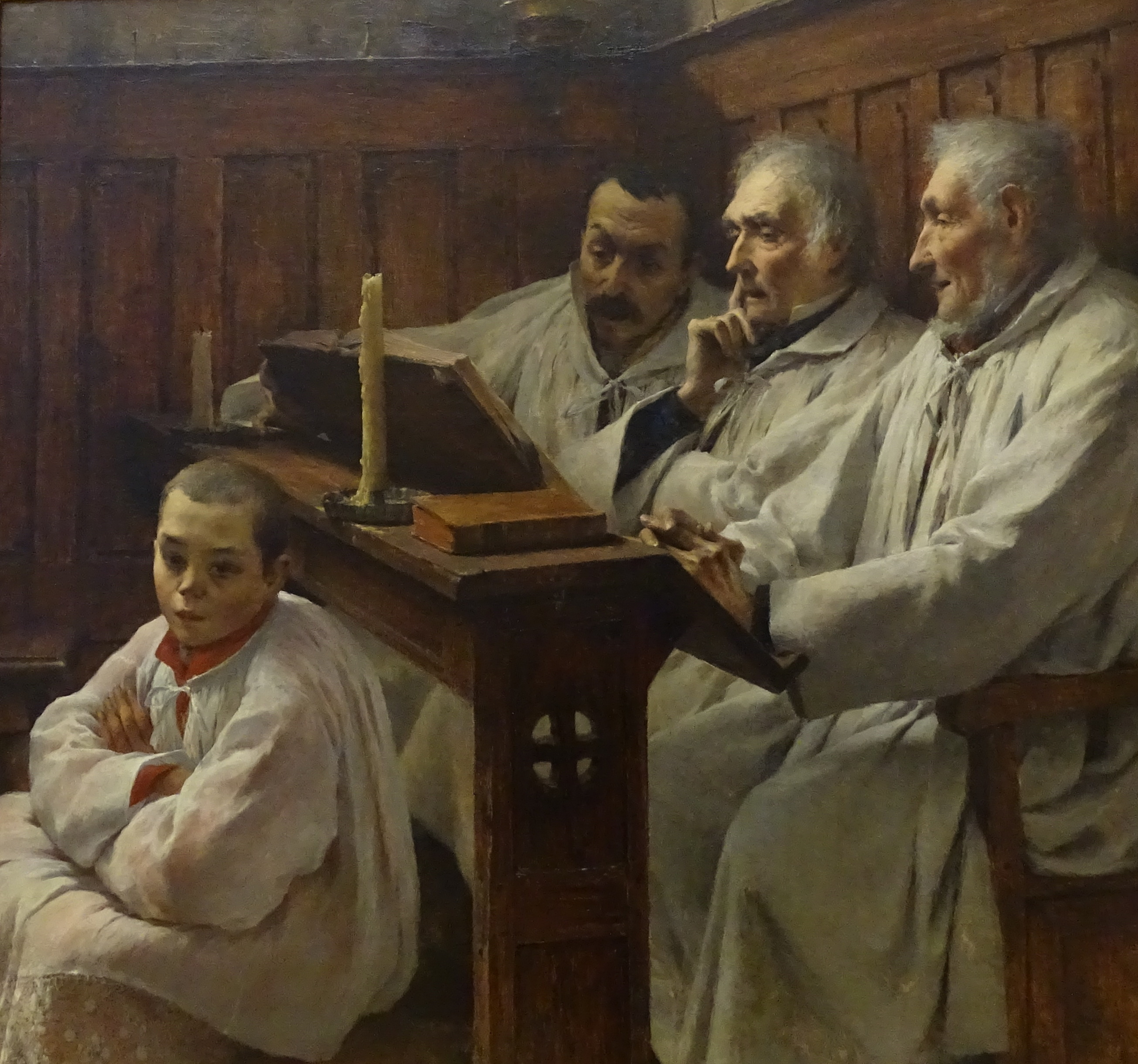 Le Credo, painting by Trancrede Bastet, Musée de Grenoble